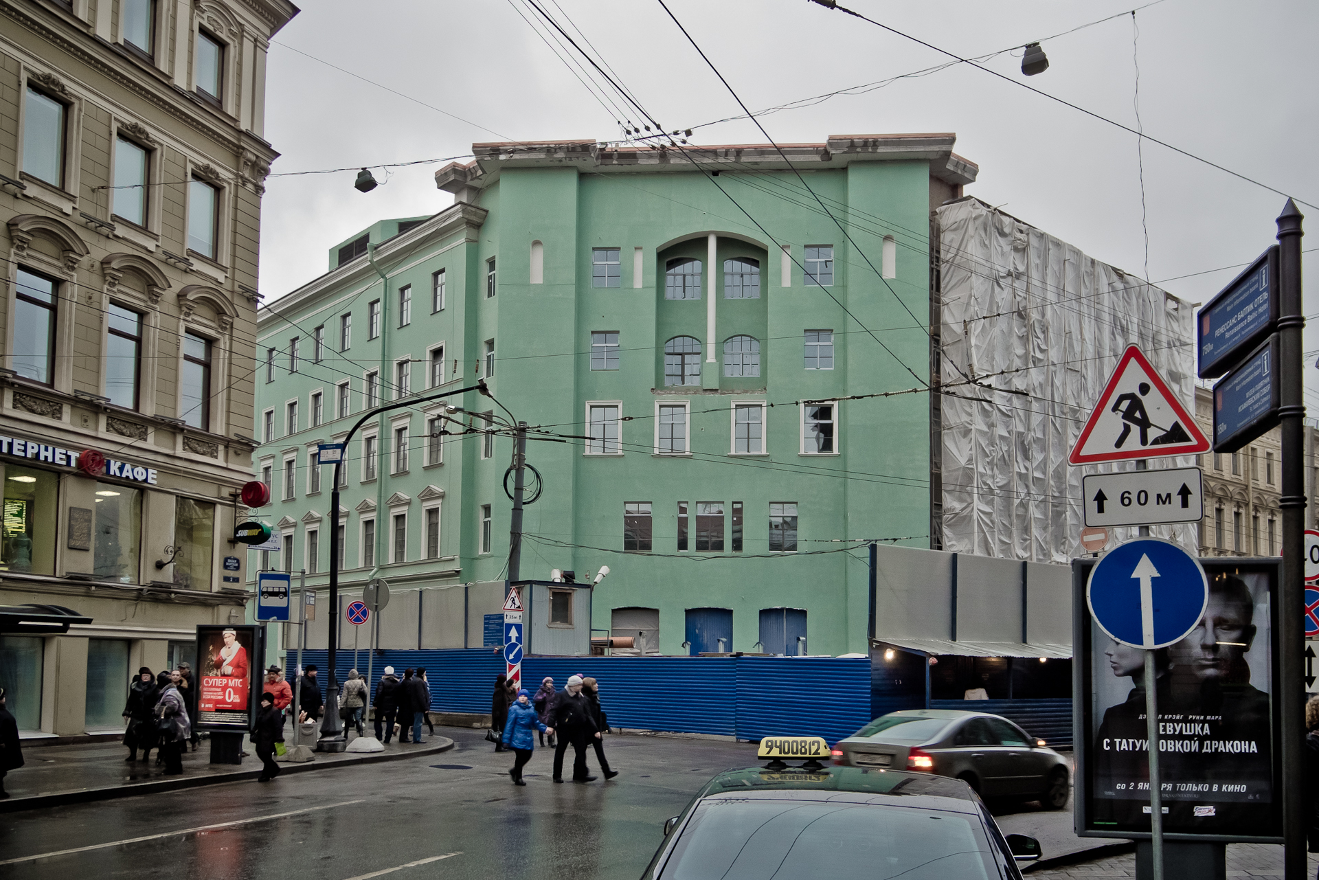 Admiralteyskaya station of Saint Petersburg Subway, vestibule building under construction